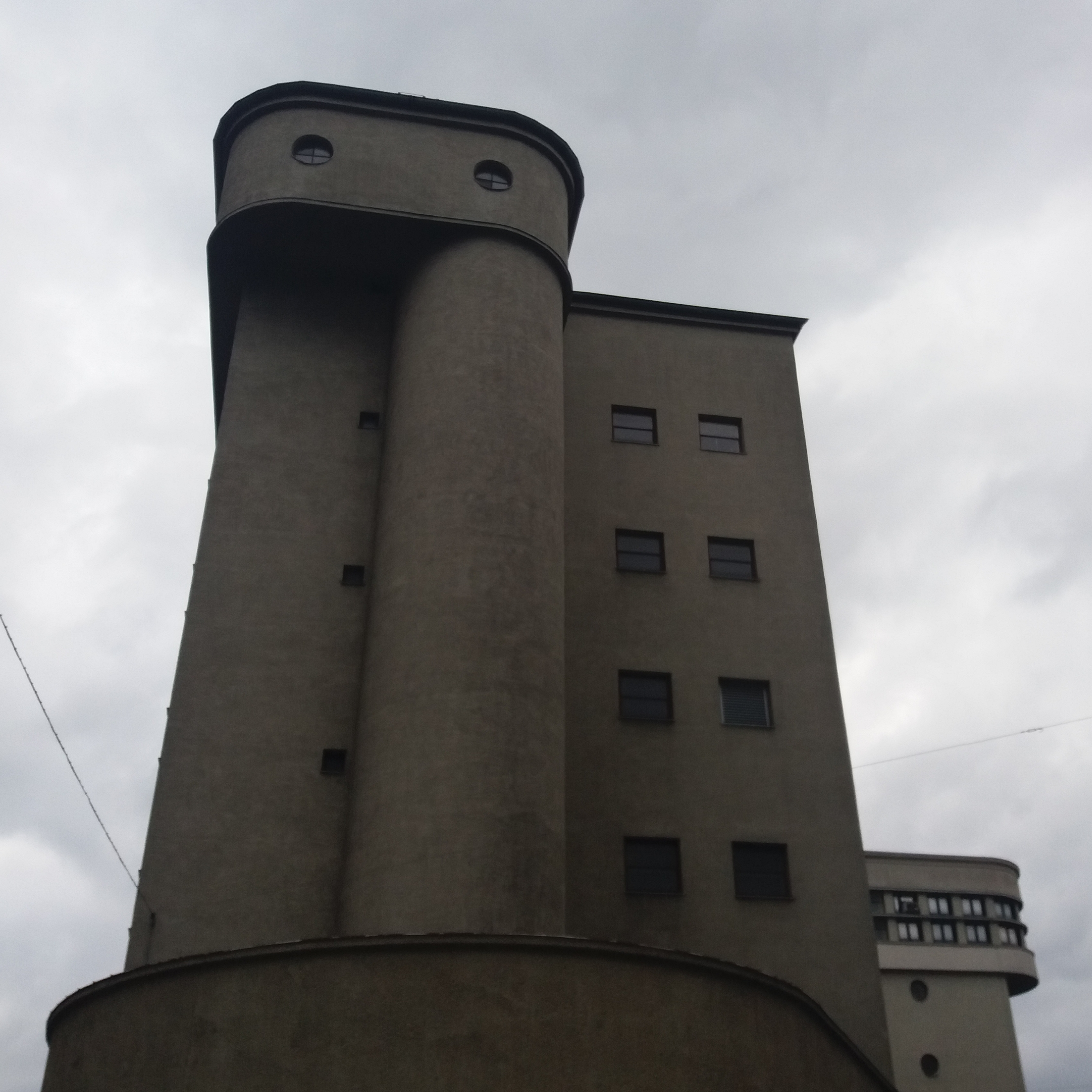 Transformer station in Vienna-Favoriten